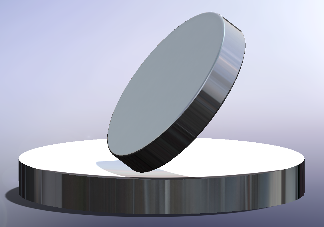 Euler's disk